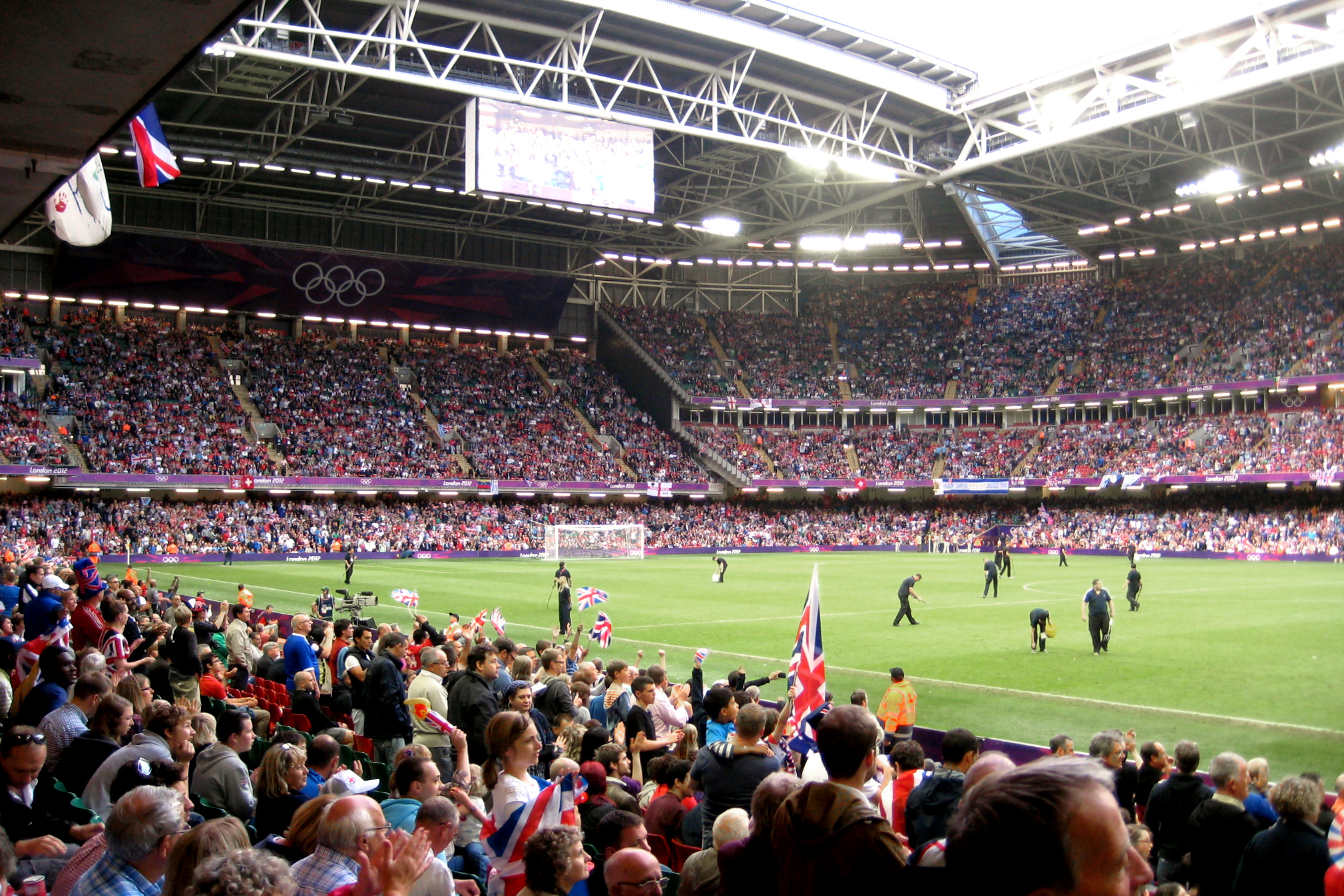 Match of the 2012 Olympics association football tournament at Millennium Stadium, Cardiff